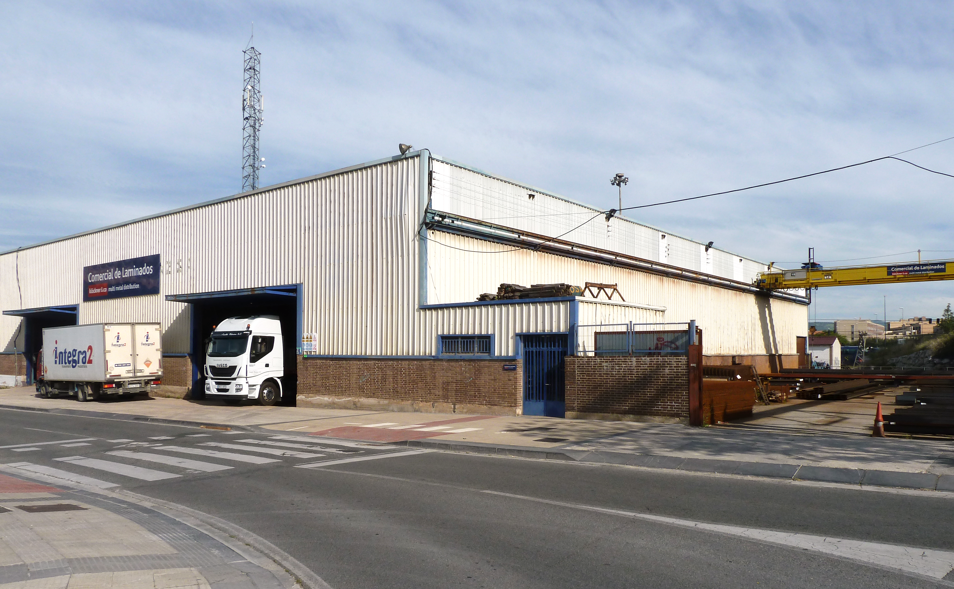 Today the one-time profuse industrial activity in the district of San Jorge/Sanduzelai (Pamplona/Iruña), has been reduced to that which occurs in a few workshops dedicated to the manufacture of metal structures, furniture, etc.., And especially to distribution stores and service companies, repairs...